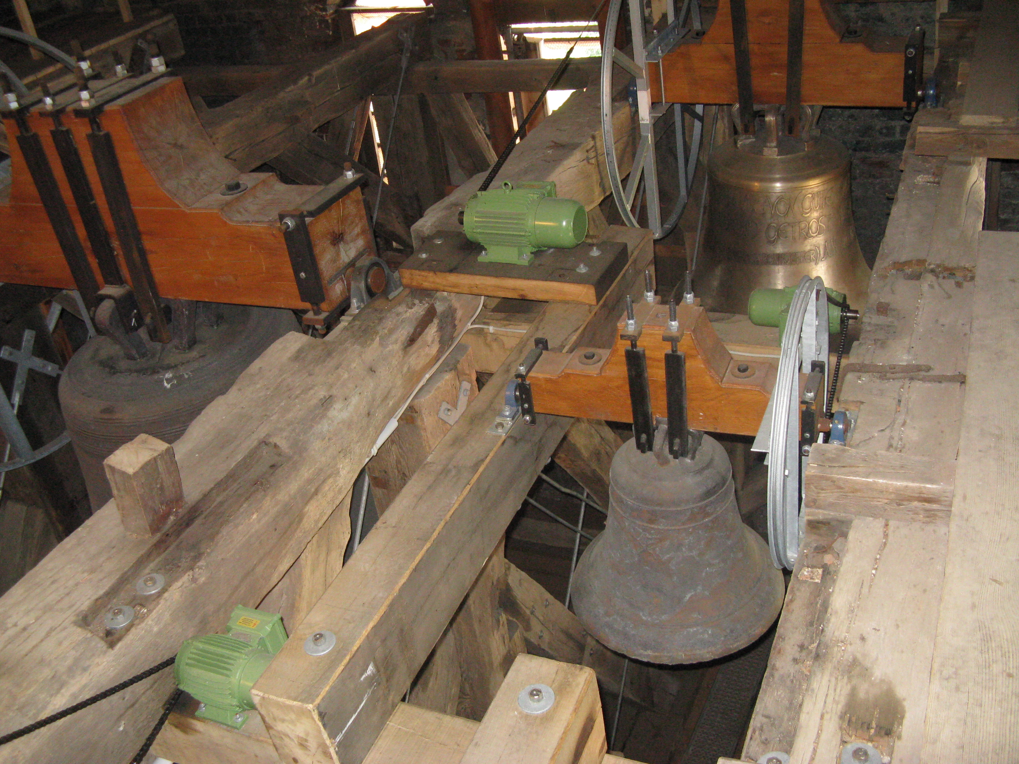 Church St. Georgen in Parchim, Germany - the bells